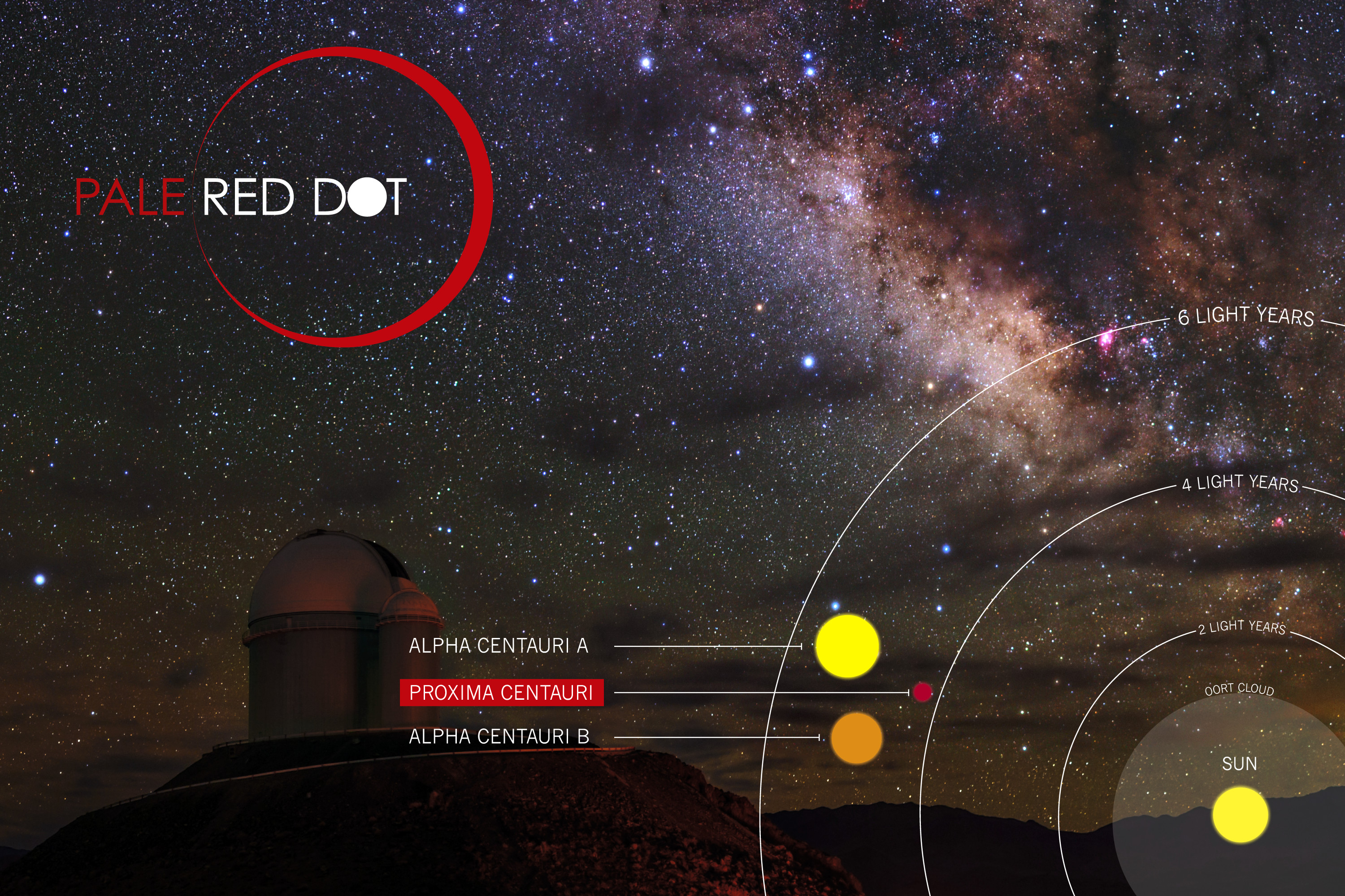 Pale Red Dot is an international search for an Earth-like exoplanet around the closest star to us, Proxima Centauri. It will use HARPS, attached to ESO’s 3.6-metre telescope at La Silla Observatory, as well as the Las Cumbres Observatory Global Telescope Network (LCOGT) and the Burst Optical Observer and Transient Exploring System (BOOTES). It will be one of the few outreach campaigns allowing the general public to witness the scientific process of data acquisition in modern observatories. The public will see how teams of astronomers with different specialities work together to collect, analyse and interpret data, which may or may not be able to confirm the presence of an Earth-like planet orbiting our nearest neighbour. The outreach campaign consists of blog posts and social media updates on the Pale Red Dot Twitter account and using the hashtag #PaleRedDot. For more information visit the Pale Red Dot website